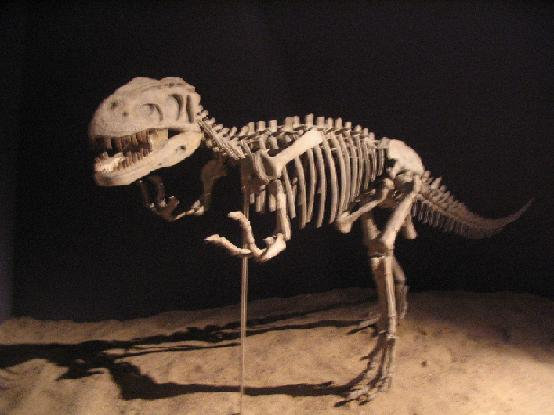 Gasosaurus. Fossil in Shanghai Science and Technology Museum